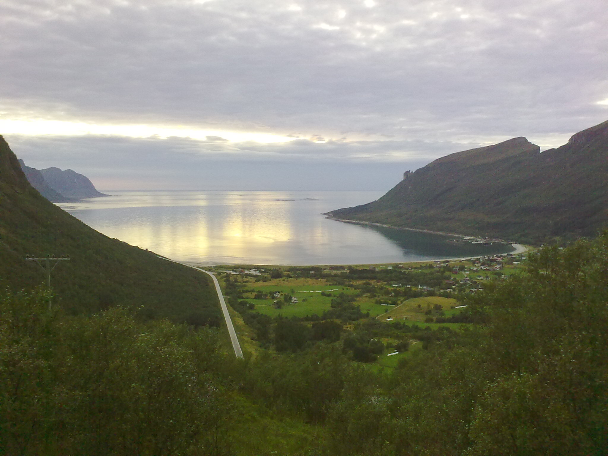 Picture of Storvik bay, Norway.